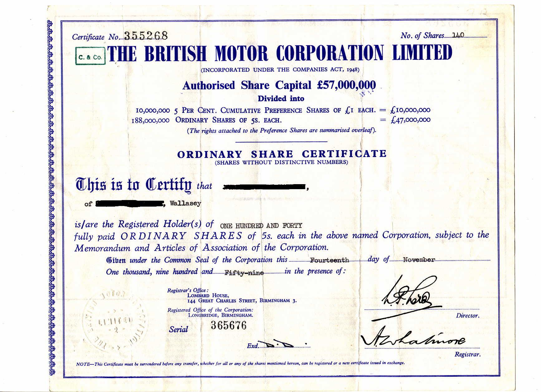 Scan from historic paper taken by user